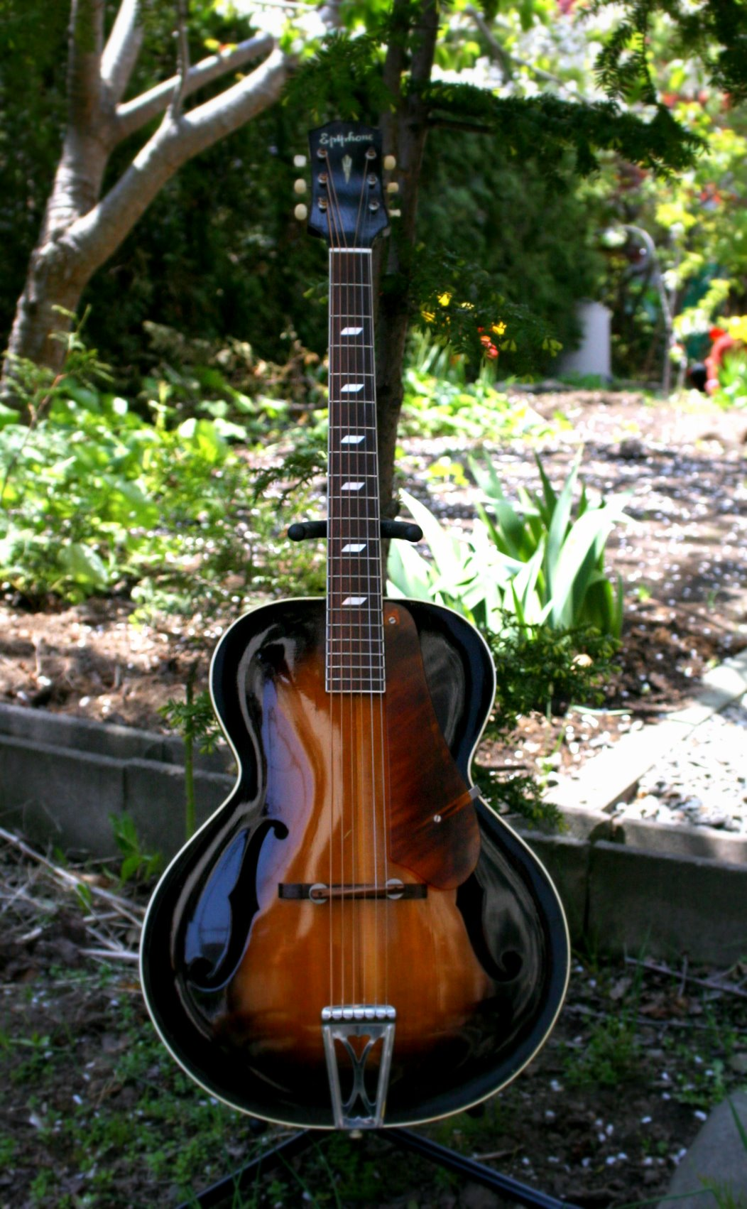 EPIPHONE BLACKSTONE 1945 The Houseof Stathopoulo